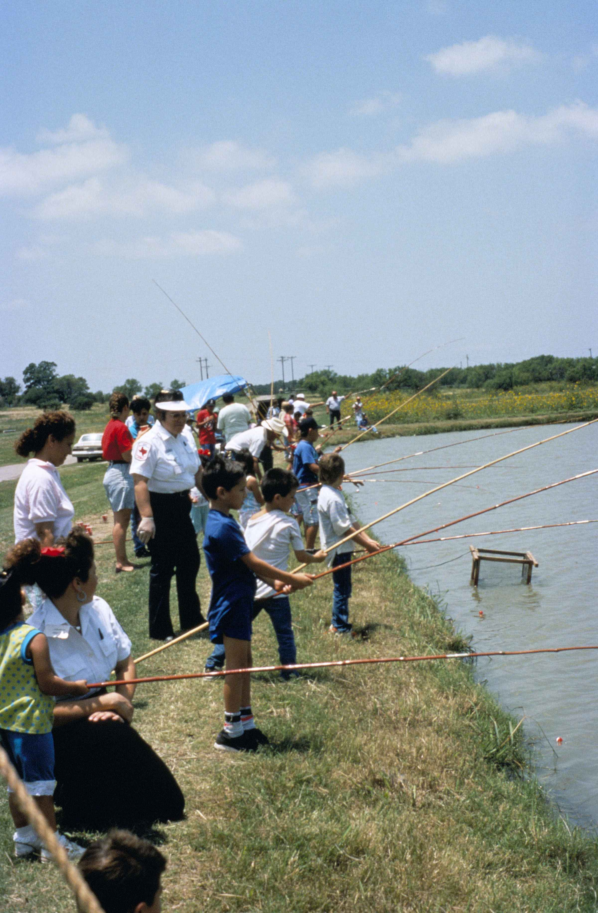 Image title: Adults and children enjoy in a beautiful day for fishing Image from Public domain images website